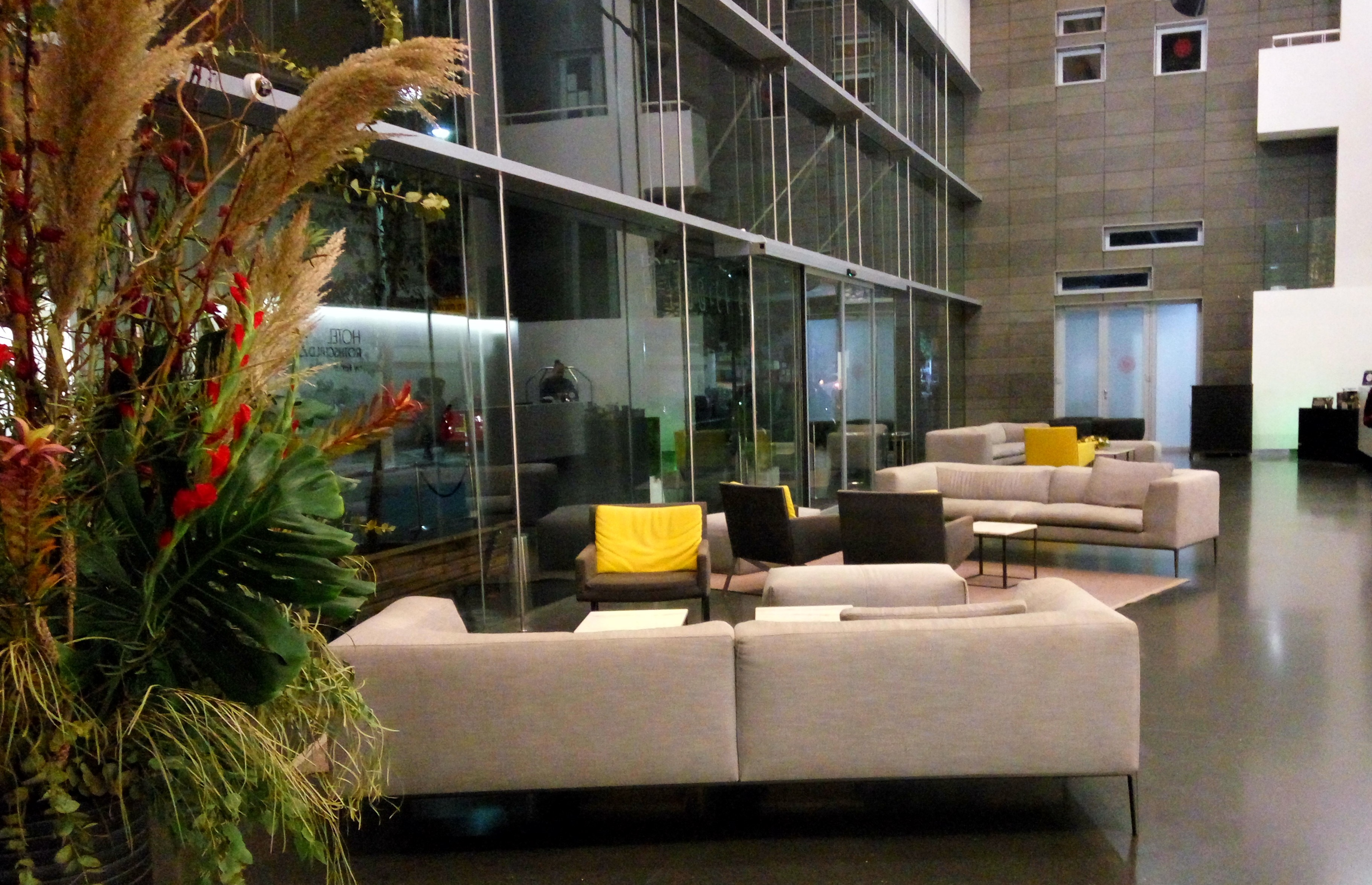 The lobby of Rotchild 22 in Tel Aviv. defined as area in Beneficial use of the public